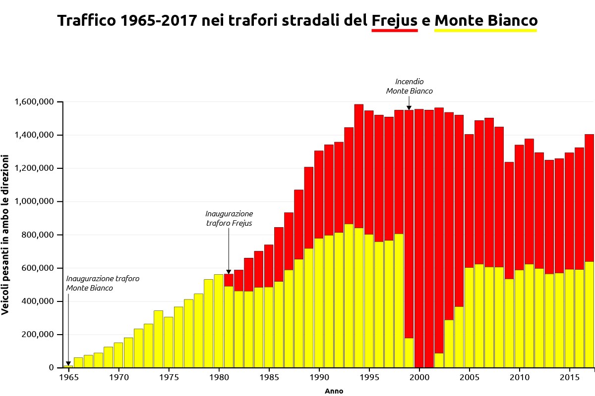 Italy-France motorway traffic crossing Frejus and Monte Bianco tunnels